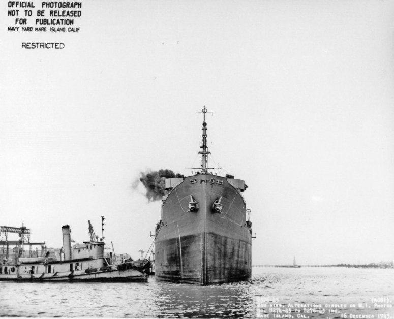 United States Navy oiler USS Kinnebago (AO-81) receiving assistance from tug USS Tillamook